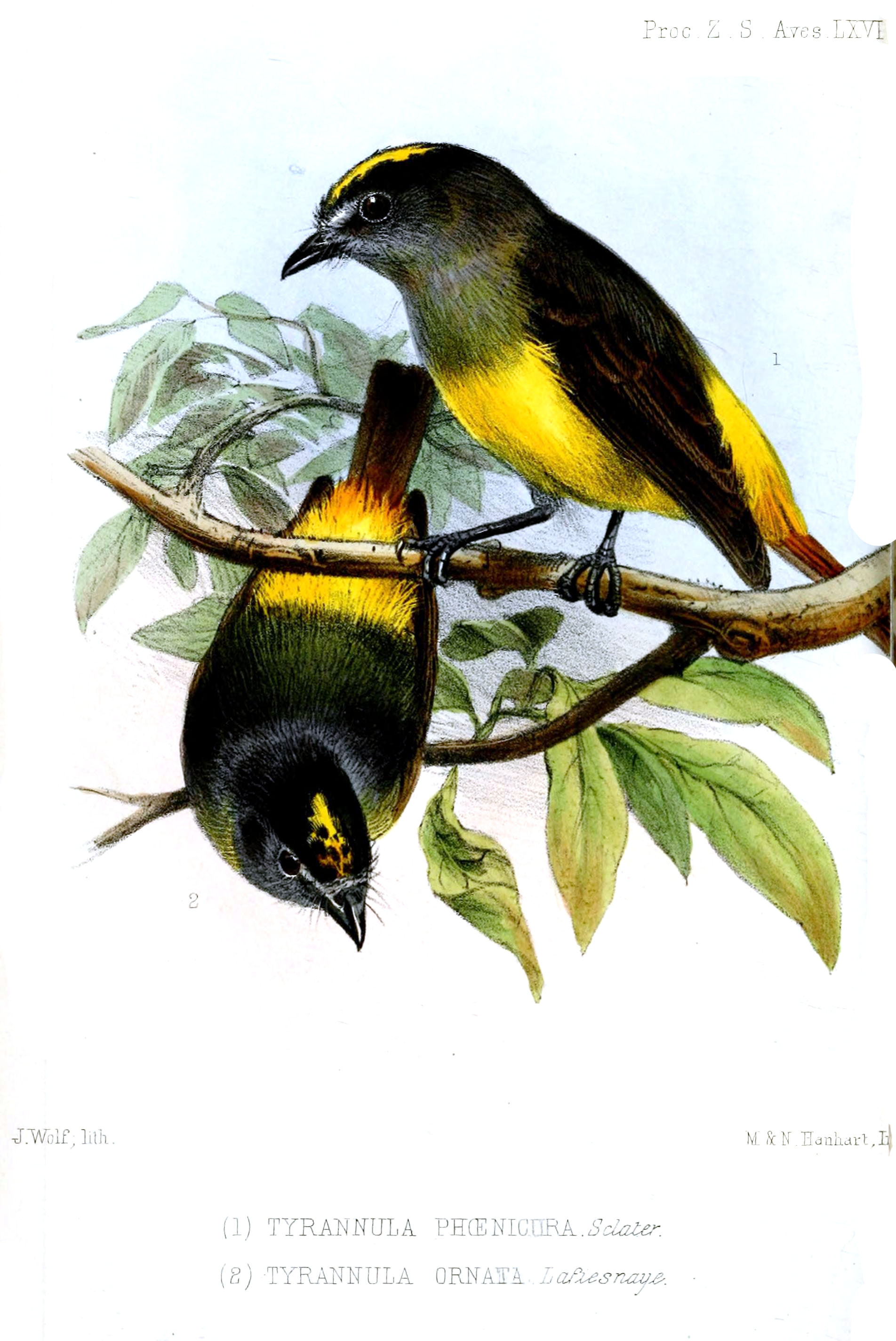 Rufous-tailed Ornate Flycatcher (above); Ornate Flycatcher (below)